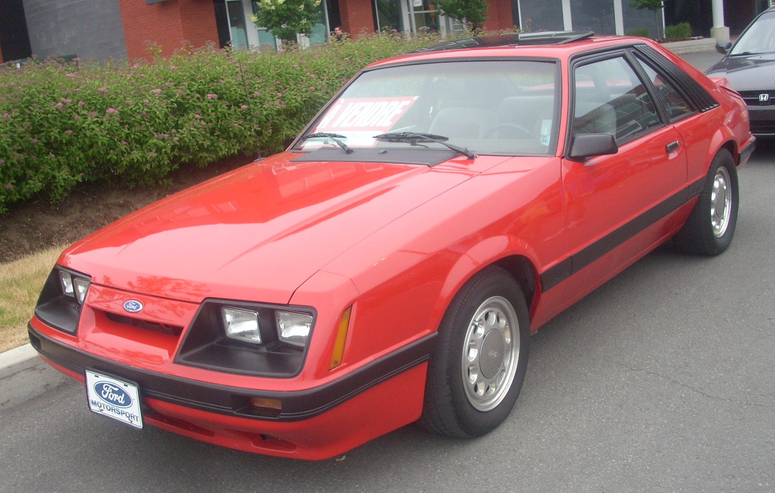 1985-1986 Ford Mustang photographed in Laval, Quebec, Canada at Centropolis Laval.